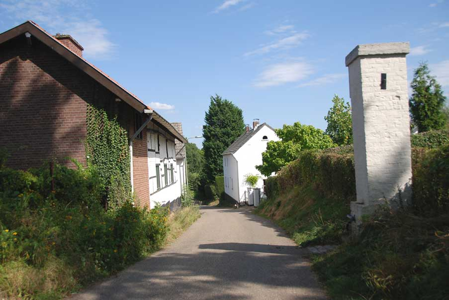 village Rot in Nederlands Limburg